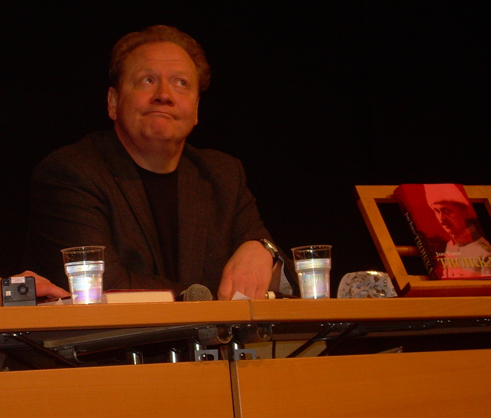 Finnish writer Jari Tervo at the Helsinki Book Fair 2008.